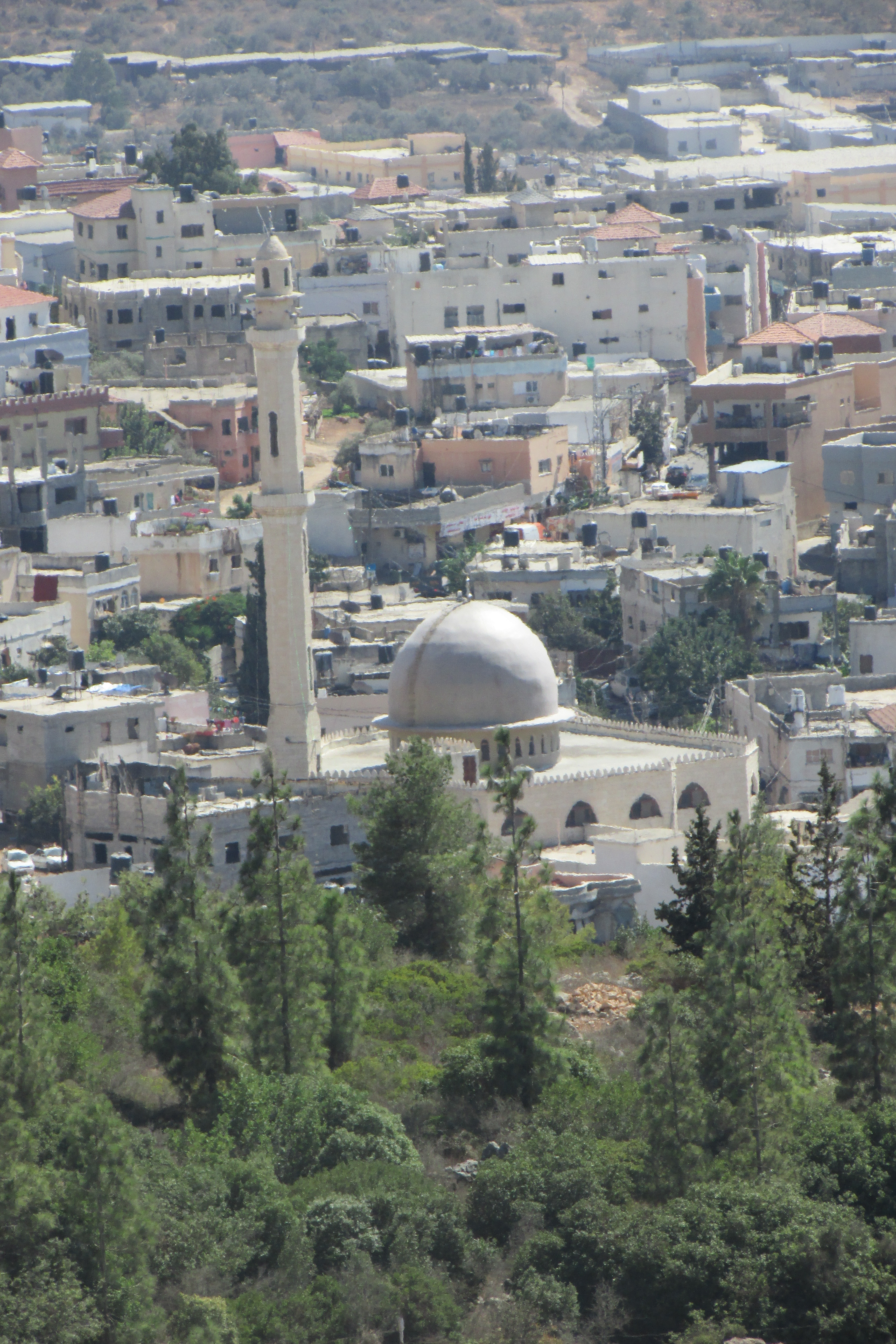 Mosques in Barta'a from the north